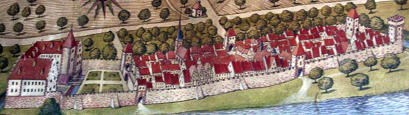 Derivate from a photo made from an old painting from the town hall of the city of Wörth am Main (Lower Franconia, Bavaria, Germany) showing the castle (left) with wall and garden and the medieval city. original file was